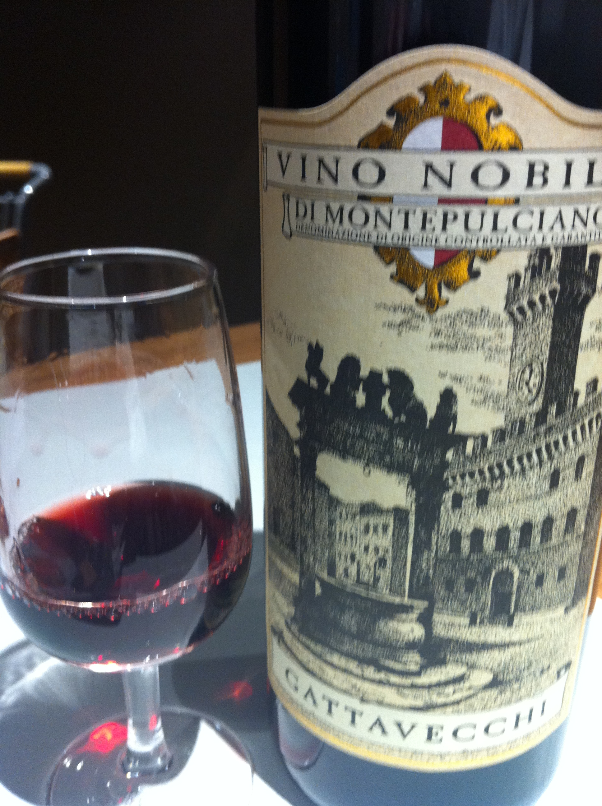 Italian Sangiovese based wine from the Vino Nobile de Montepulciano region of Tuscany